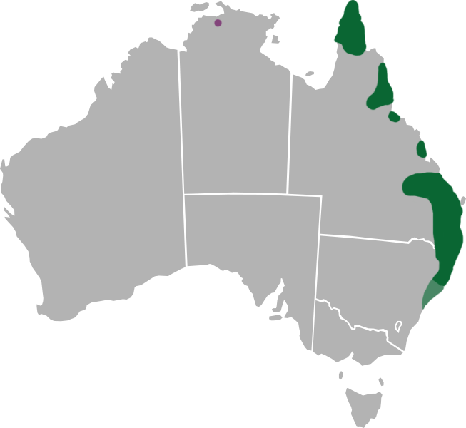 Distribution of Protographium leosthenes in Australia.